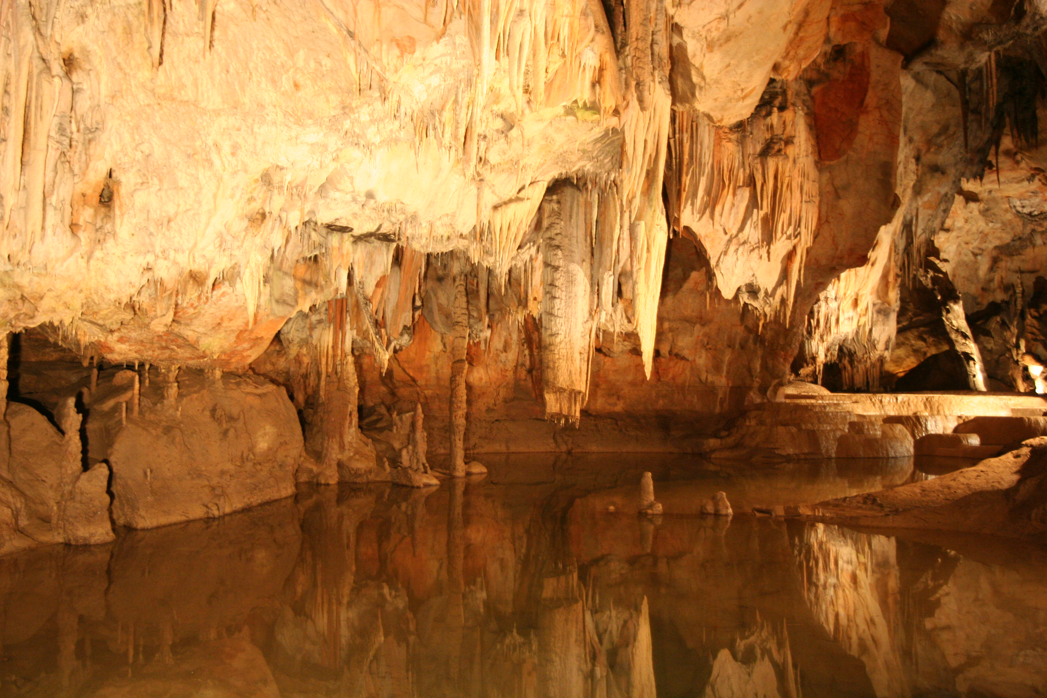 Domica Cave, Slovakia. Taking this photo was made possible through the financial support of Wikimedia Polska.